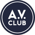 Logo of The A.V Club. The A.V Club has willingly published such images to represent their products and company.